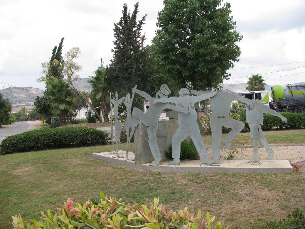 dance statue